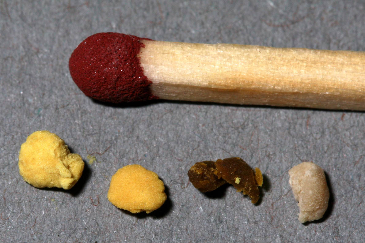 Bee Pollen